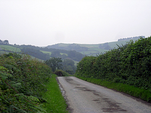 NCR 8 & 81 head further west